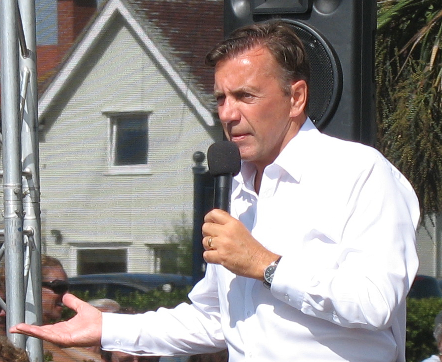 Dragon's Den Duncan Bannatyne judging at a Bathing Beauty contest in Felixstowe, Suffolk